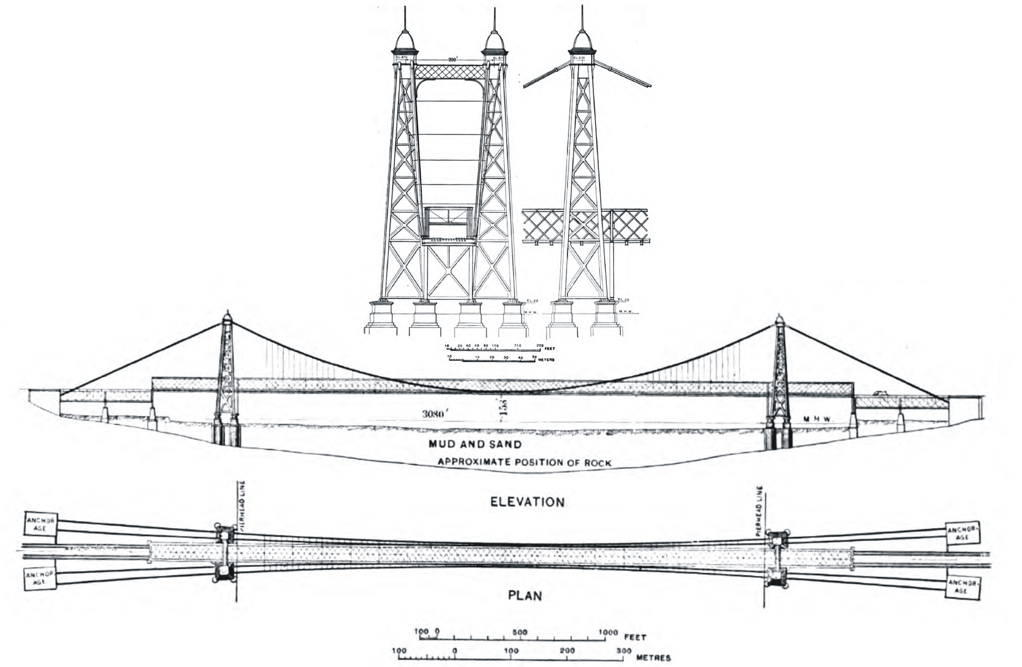 Early Design of the North River Bridge from Morison 1896 (later build as George Washington Bridge 1931)